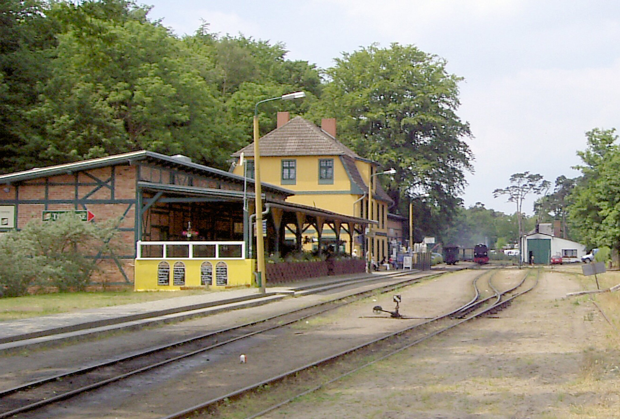 Railway station Göhren